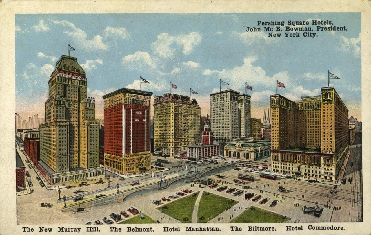 Proposed version of Pershing Square